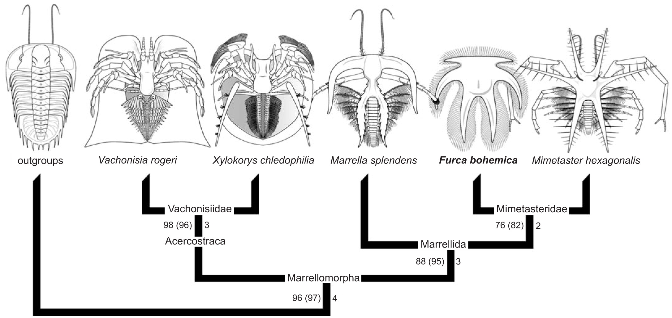 Phylogeny of marrellomorph arthropods. Single MPT (most parsimonious tree) (CI = 0.941; RI = 0.941). Tree length is 17 steps with equally weighted characters. With implied weighting tree length equals 0.1667 (k = 5), 0.25 (k = 3) and 0.50 (k = 1). Numbers on the left of the branches indicate support values for jackknifing, and those in brackets are for symmetric resampling. Numbers on the right of branches indicate Bremer support values. Outgroup taxa are represented by trilobite Olenoides serratus.